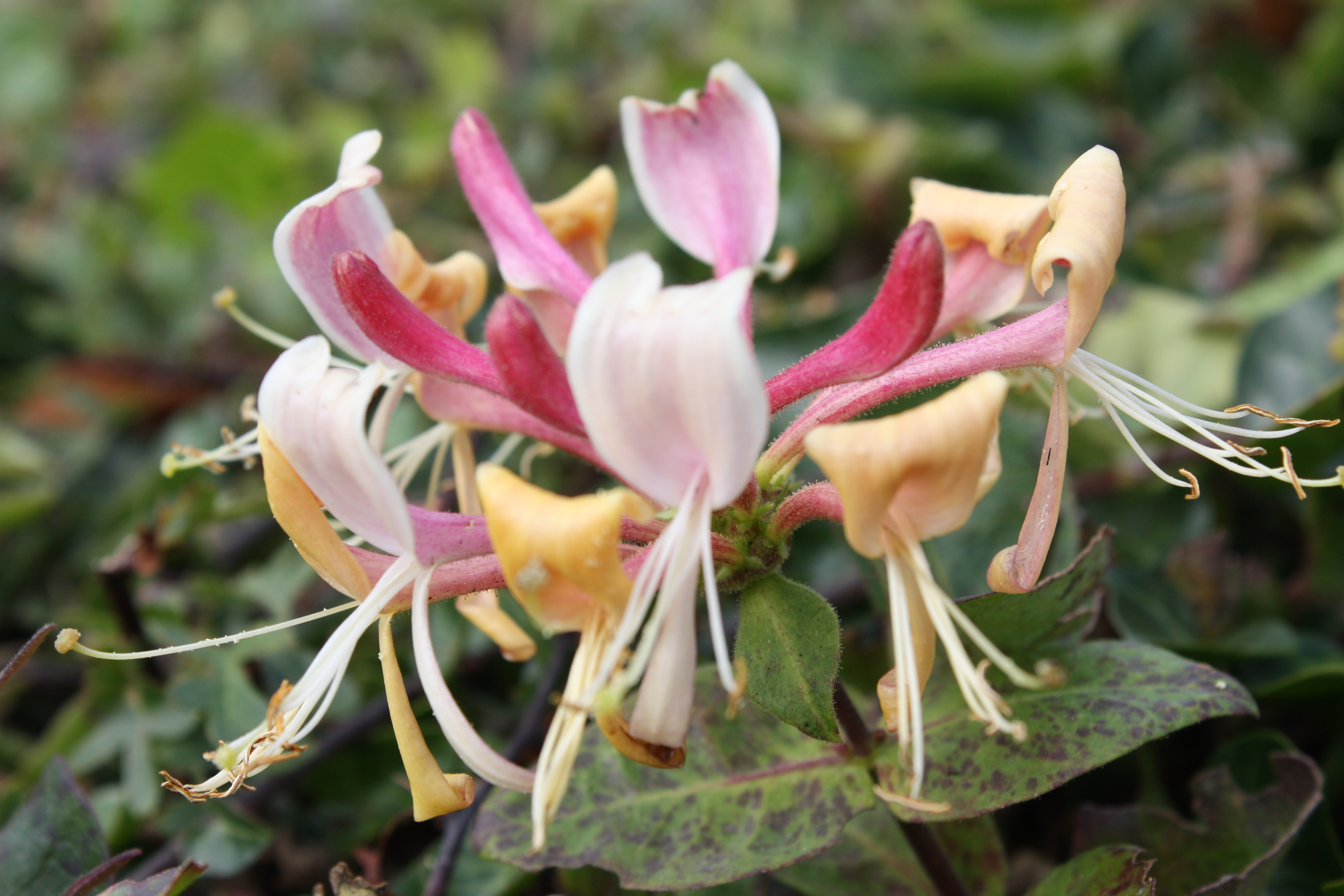 Honeysuckle, Keelstown Road, Downpatrick, County Down, Northern Ireland, September 2010